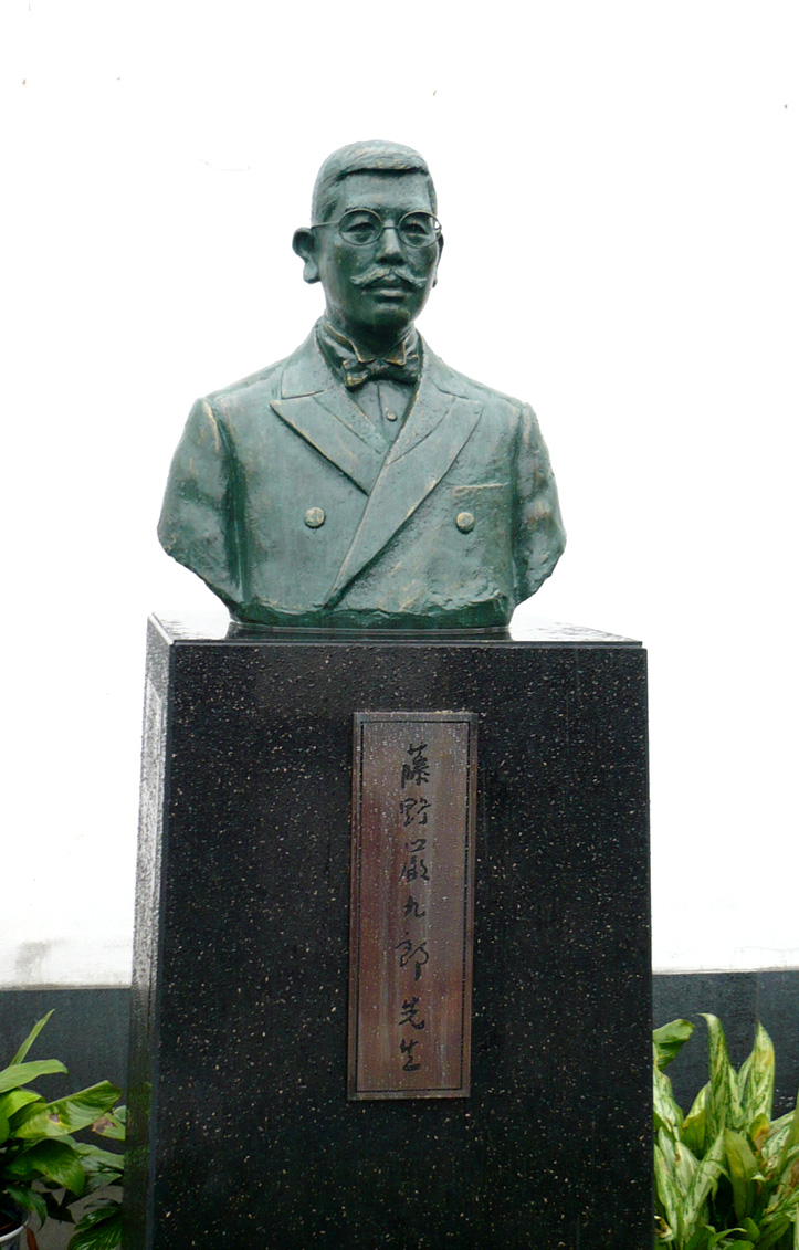 Fujino Kenkurou